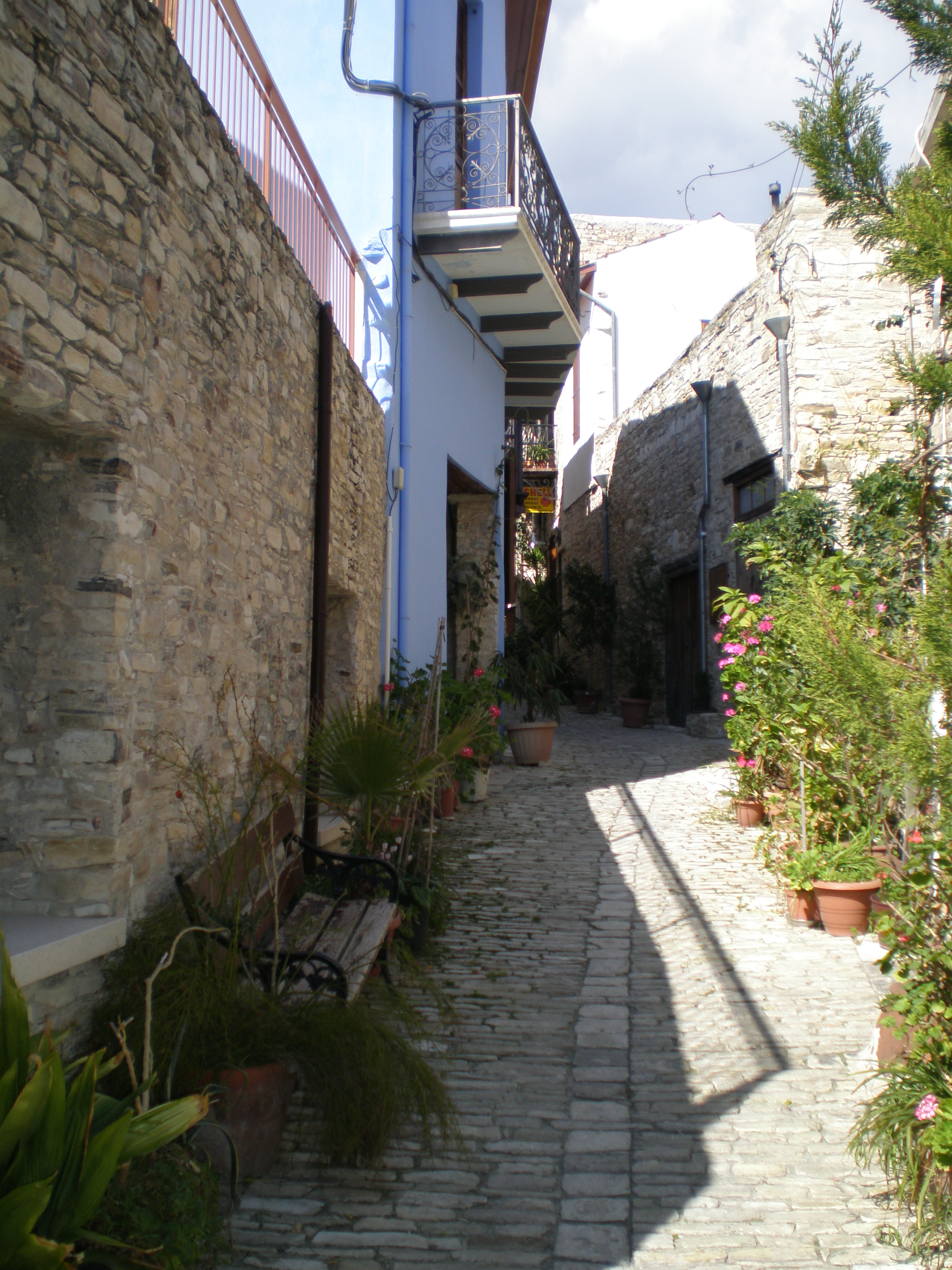 Lefkara - Street